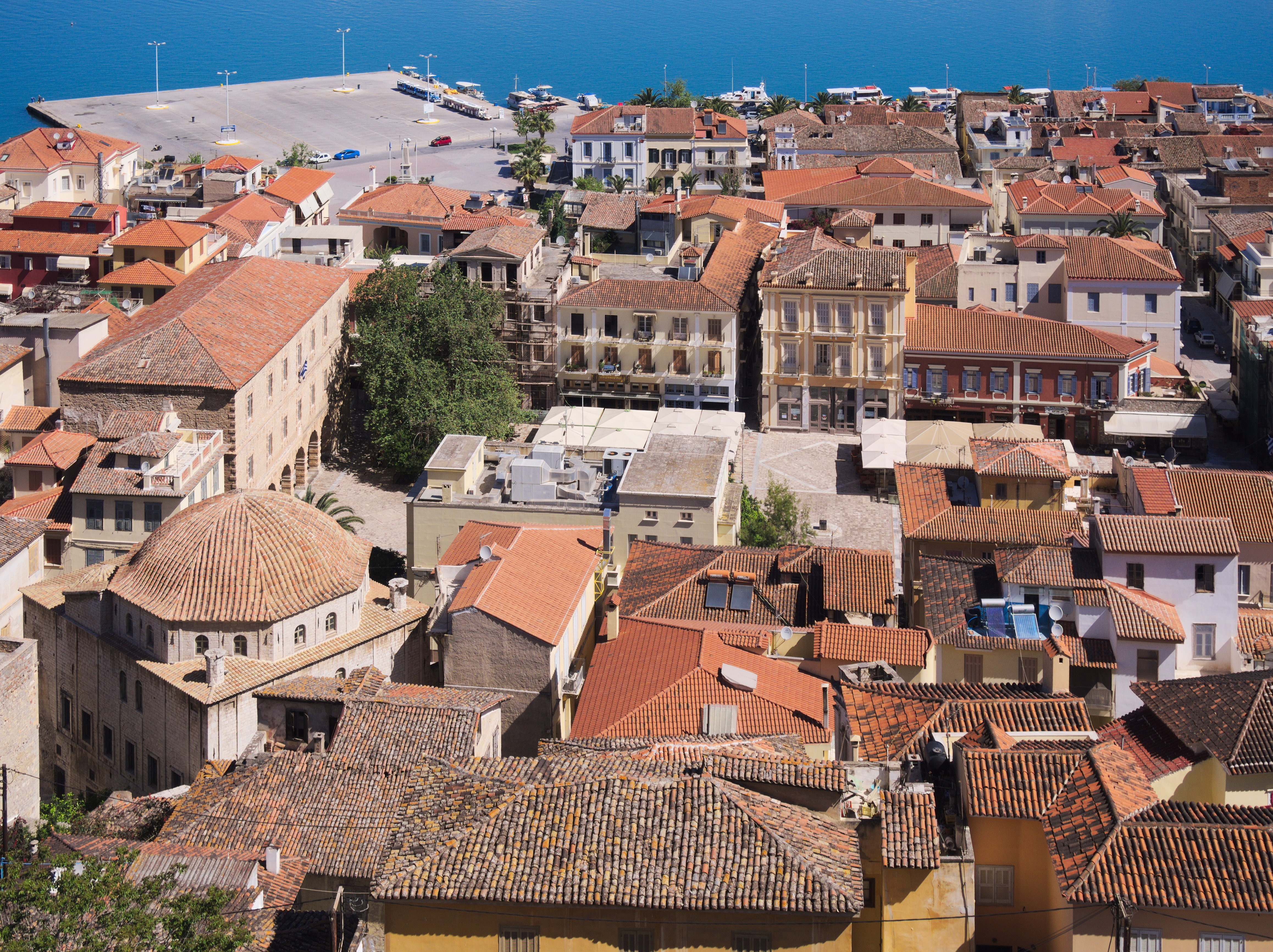 View of Syntagma square, Nafplion.